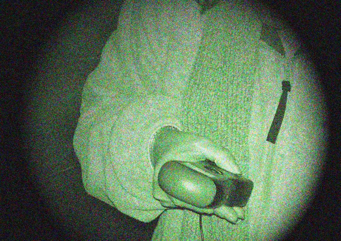 Nightshot, enhanced.